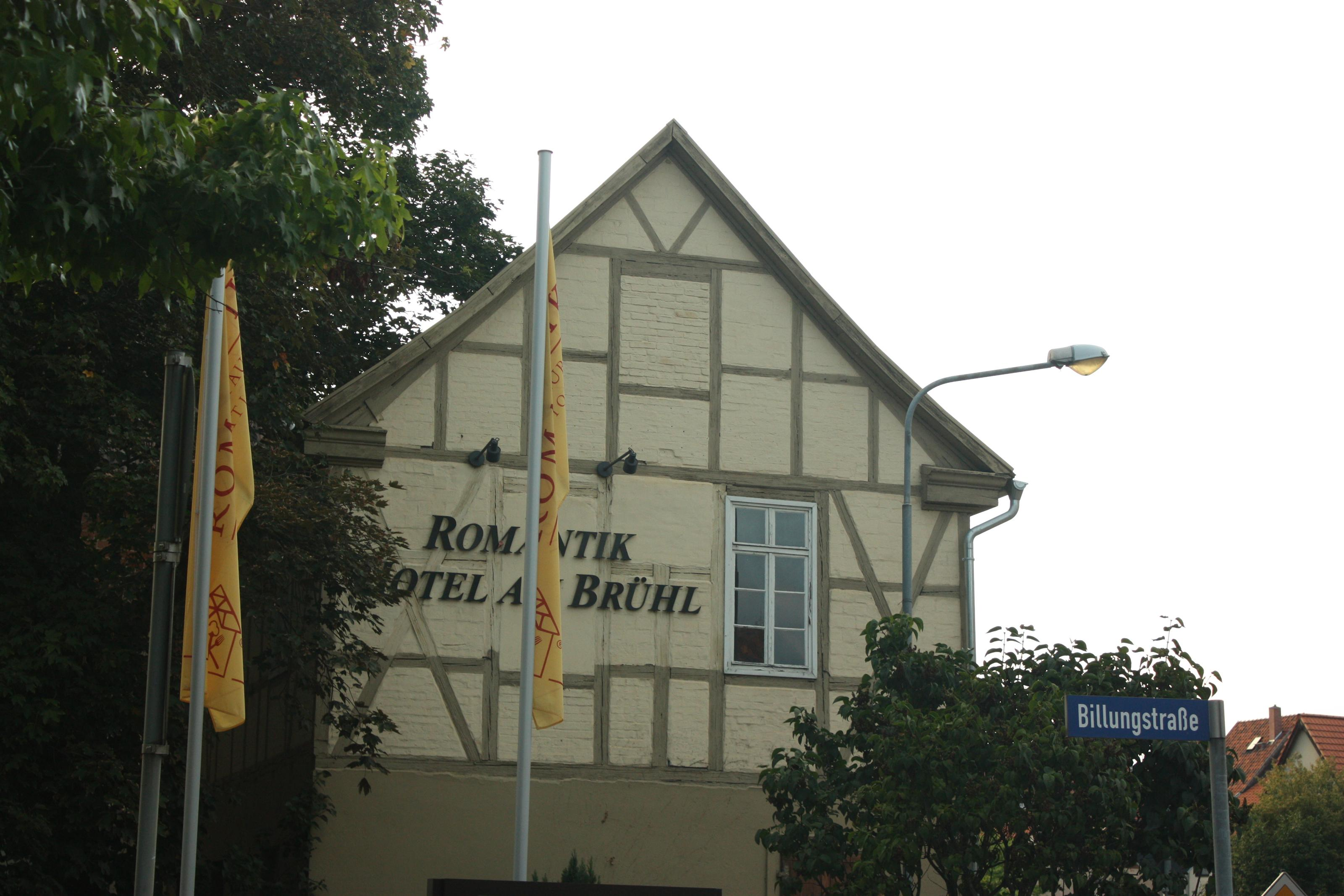 This is a photograph of an architectural monument.It is on the list of cultural monuments of Quedlinburg Kaiser-Otto-Straße 17 (Quedlinburg)